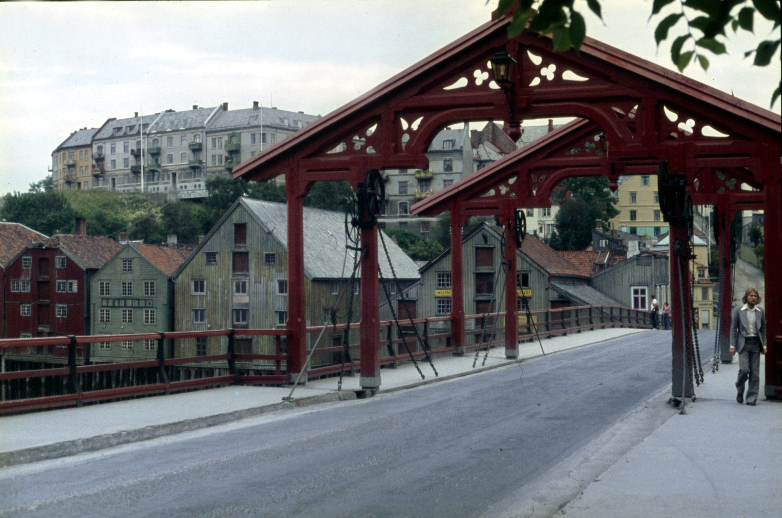 Nidaros Cathedral in Trondheim in Norway 1975